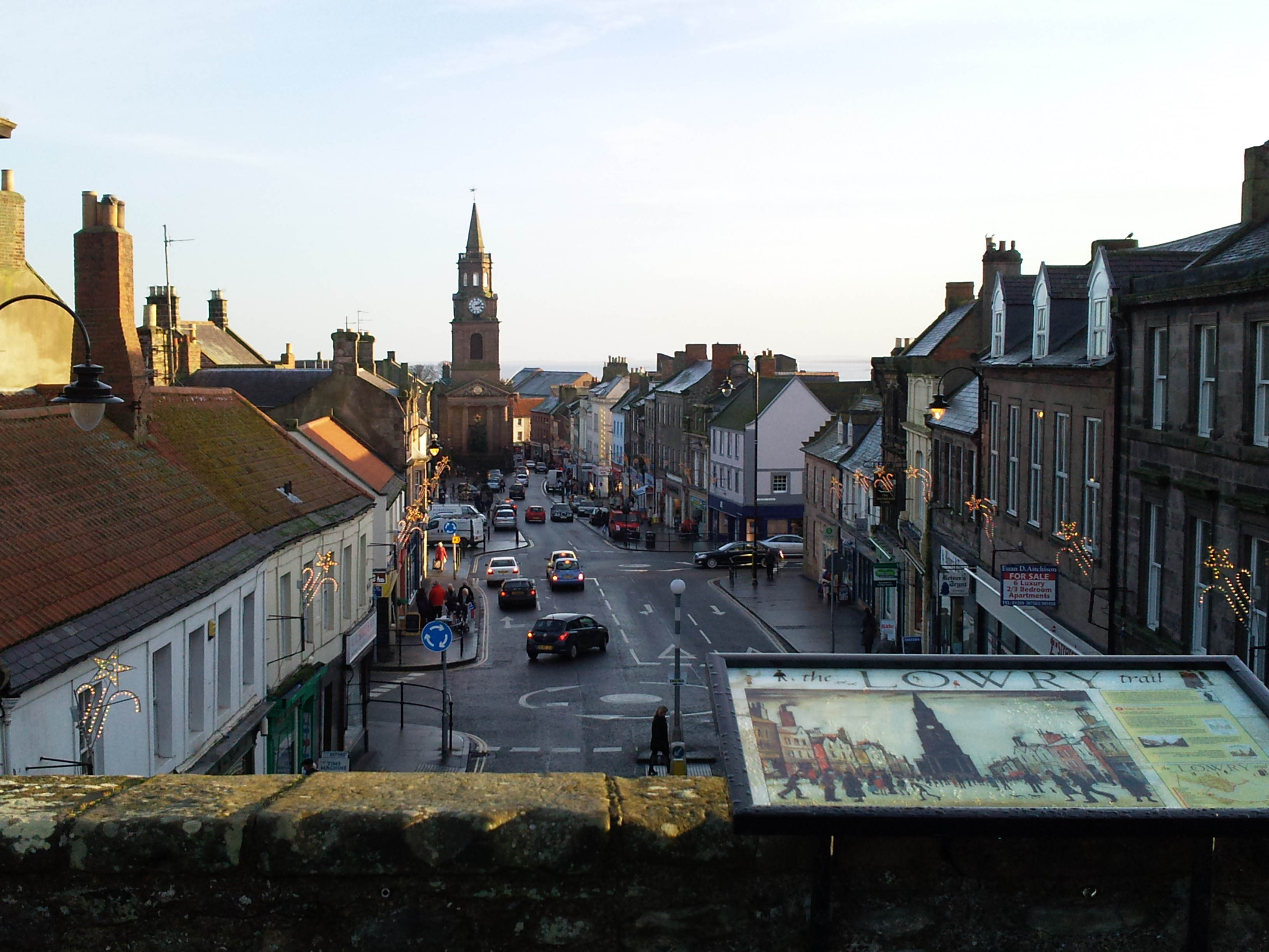 Berwick high street in the winter. The town becomes fairly busy during the summer months however during the winter there are fewer Seagulls.